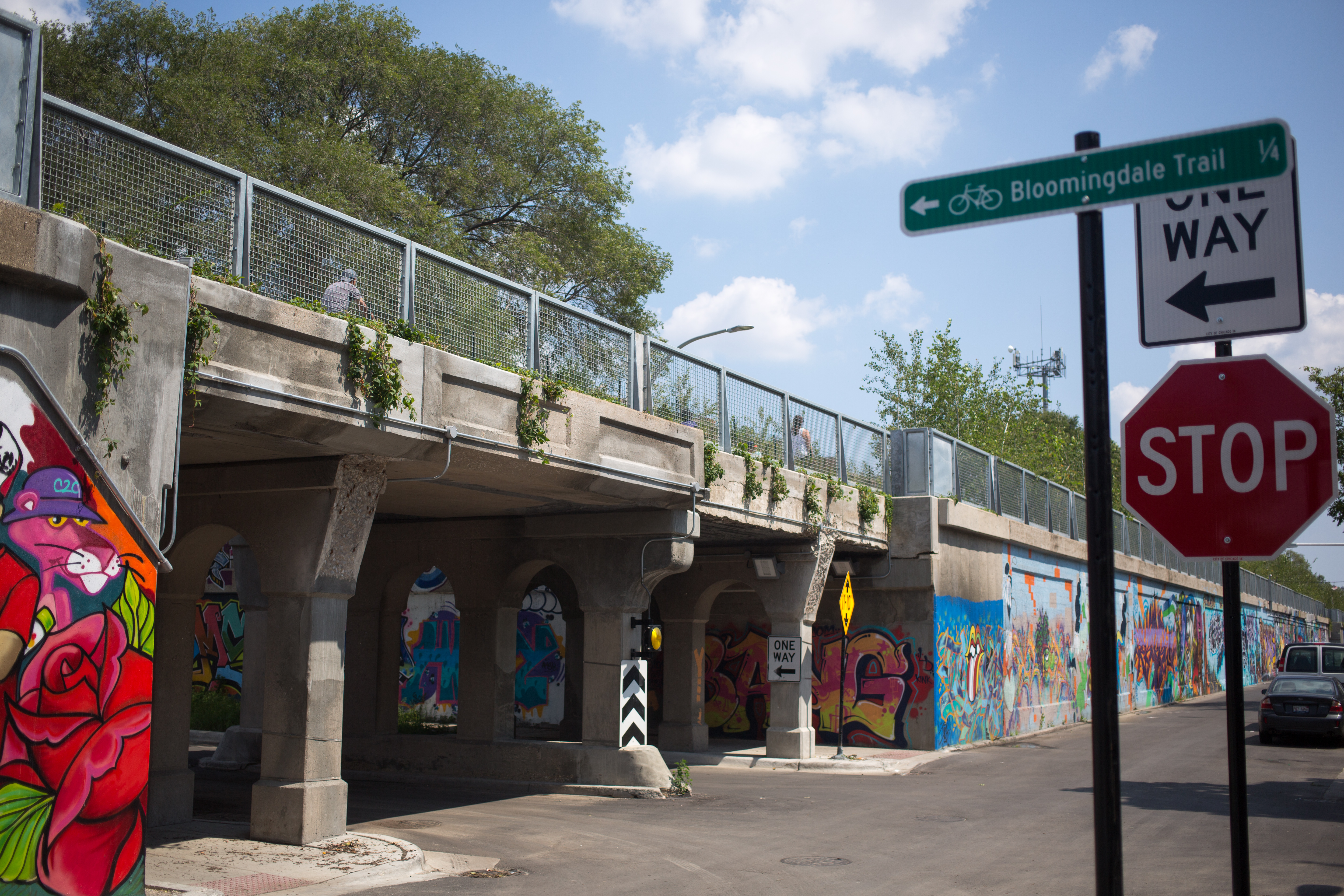 Bloomingdale Trail Sign in Chicago 2015